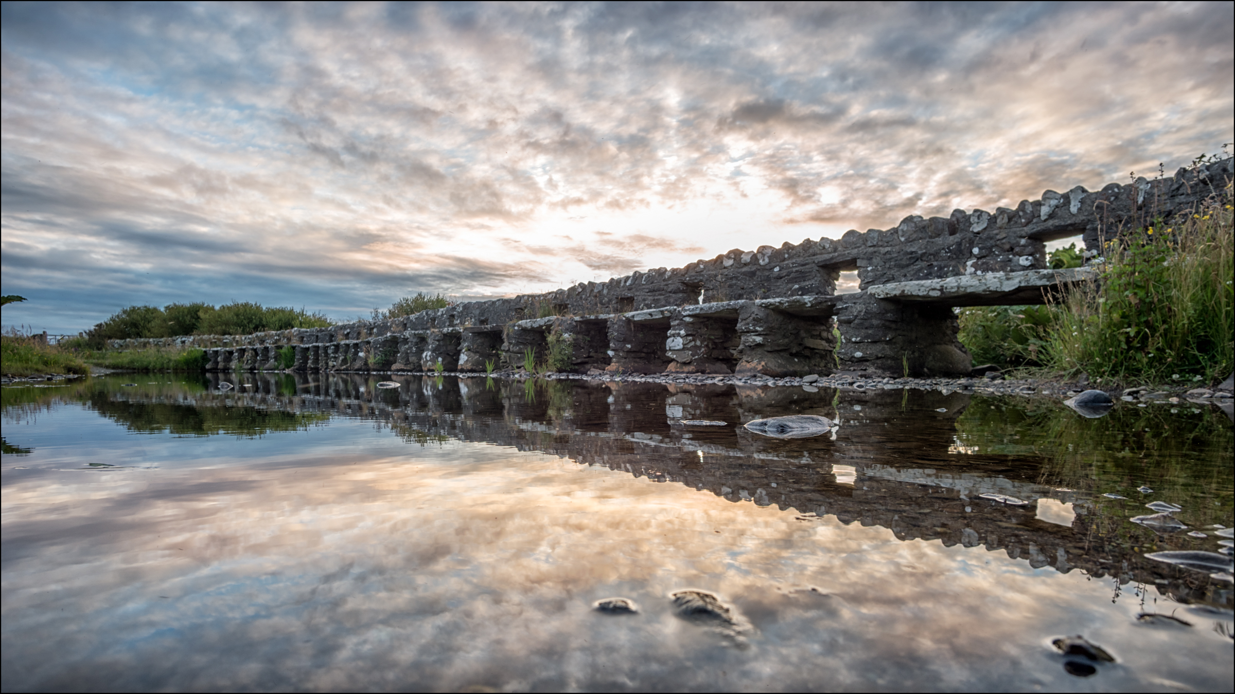 County Mayo, Bunlahinch Bridge. Wikidata has entry Q33110945 with data related to this item.